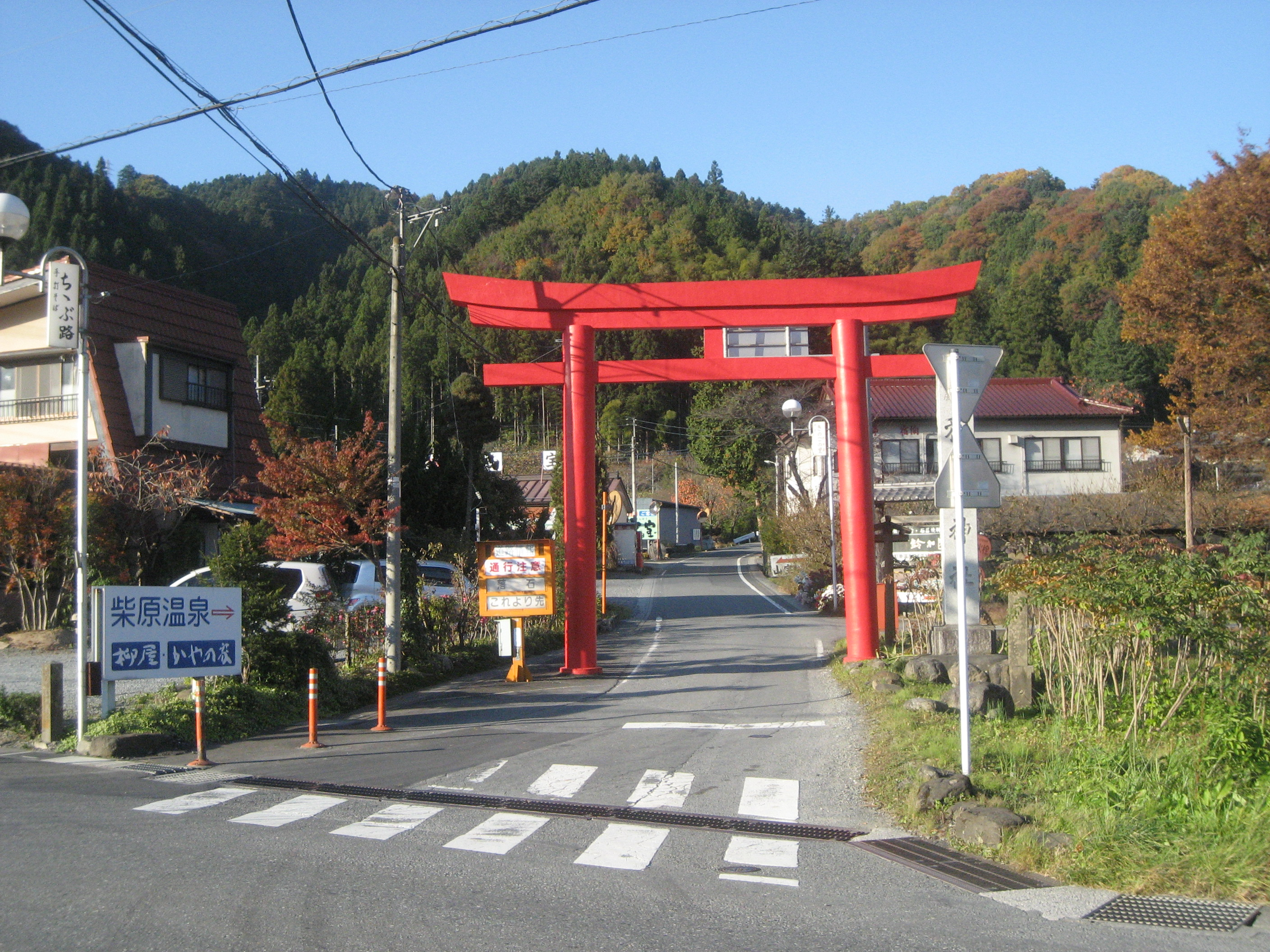 The Saitama Prefectural Road Route 43 on the intersection to the National Route 140 in Chichibu City